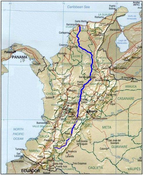 Magdalena River in Colombia.